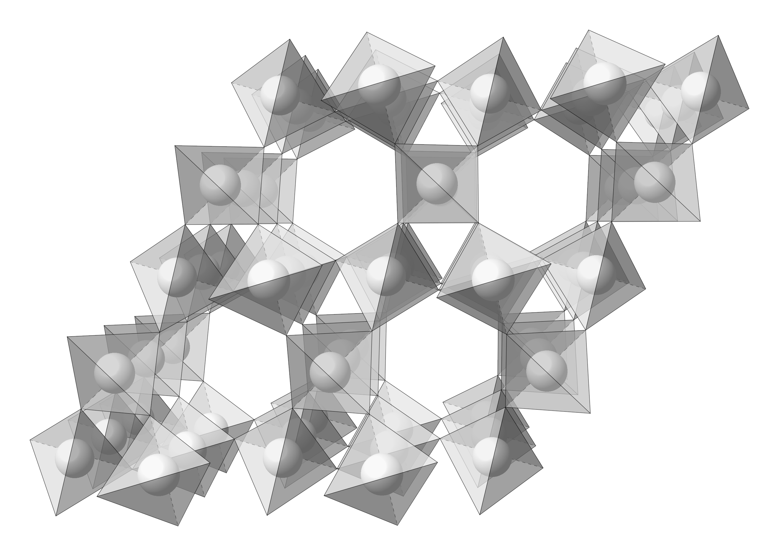 Polyhedral model of part of the crystal structure β-quartz, a form of silicon dioxide, SiO2. Image generated in CrystalMaker 8.1. Structural data from the CrystalMaker structure library.